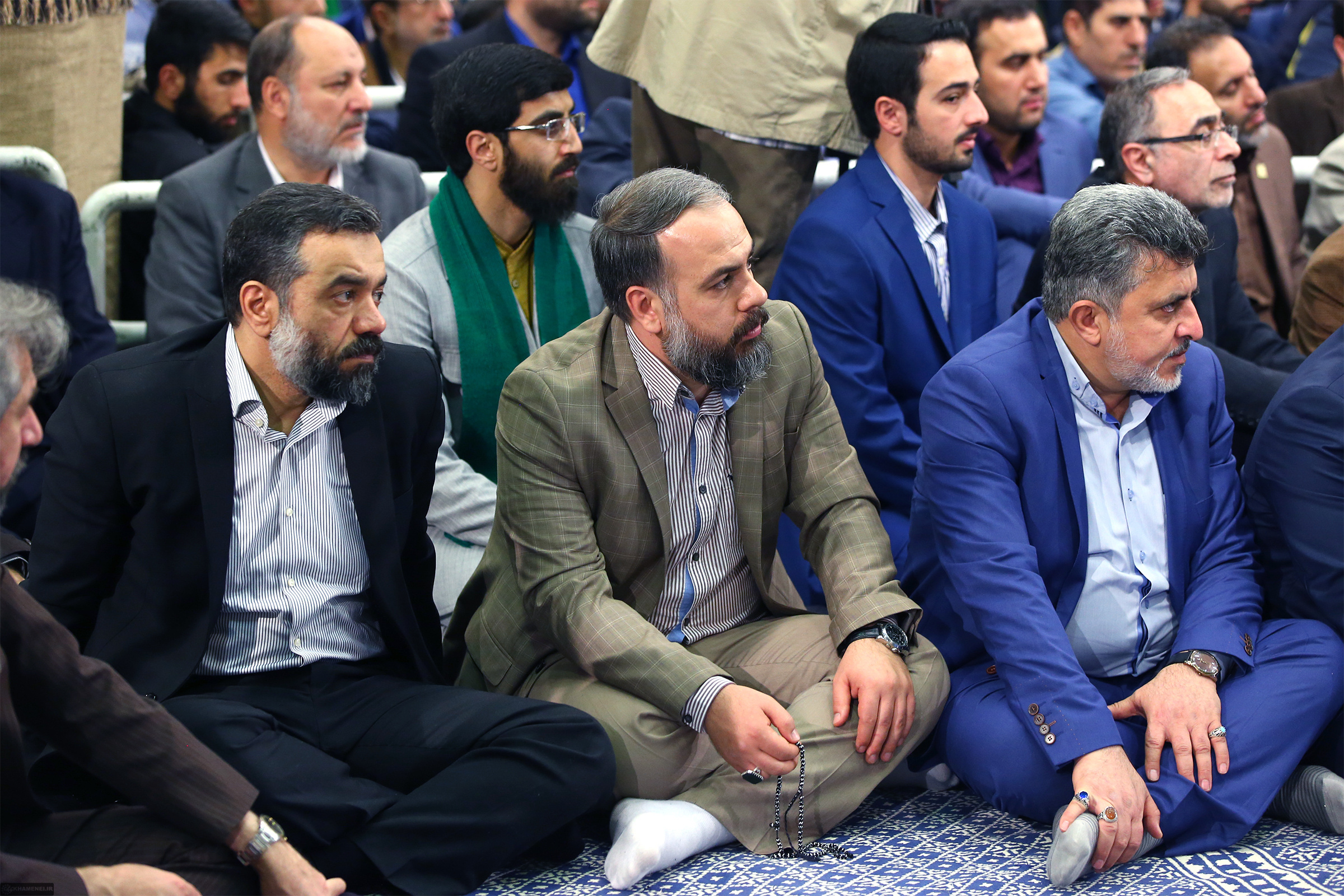 Maddahs meeting Ali Khamenei (13951229 6736010)